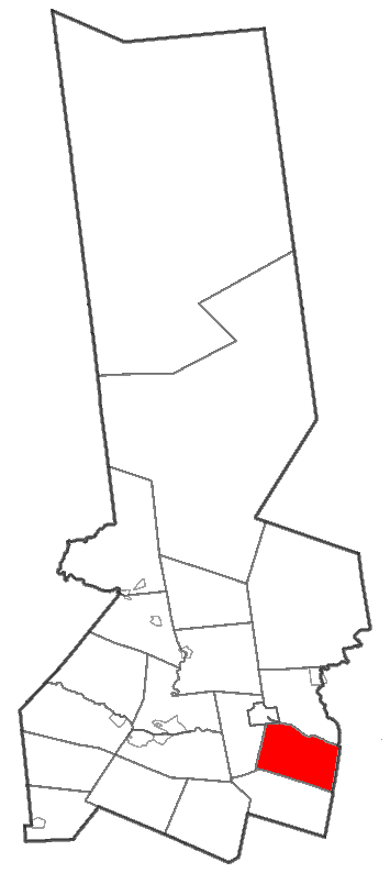 Map of Herkimer County highlighting Danube